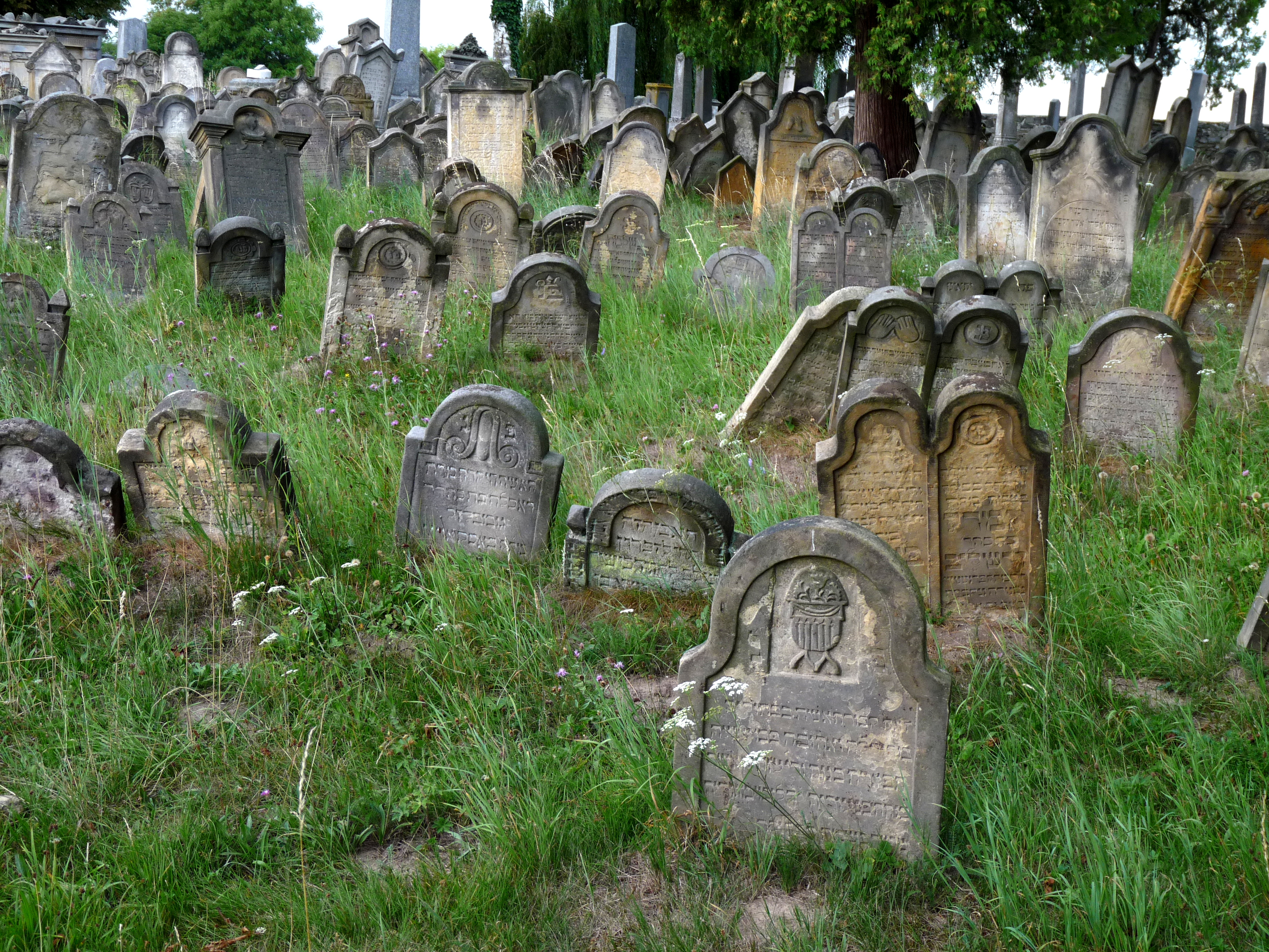 Gravestones in the Jewish cemetery in the town of Úsov, Šumperk District, Czech Republic.